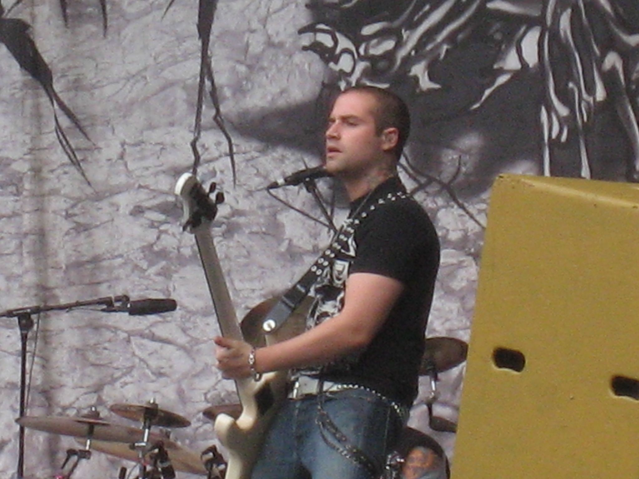 Johnny Christ (artistic name),bassist of the United States band, Avenged Sevenfold. Picture by Free-ers